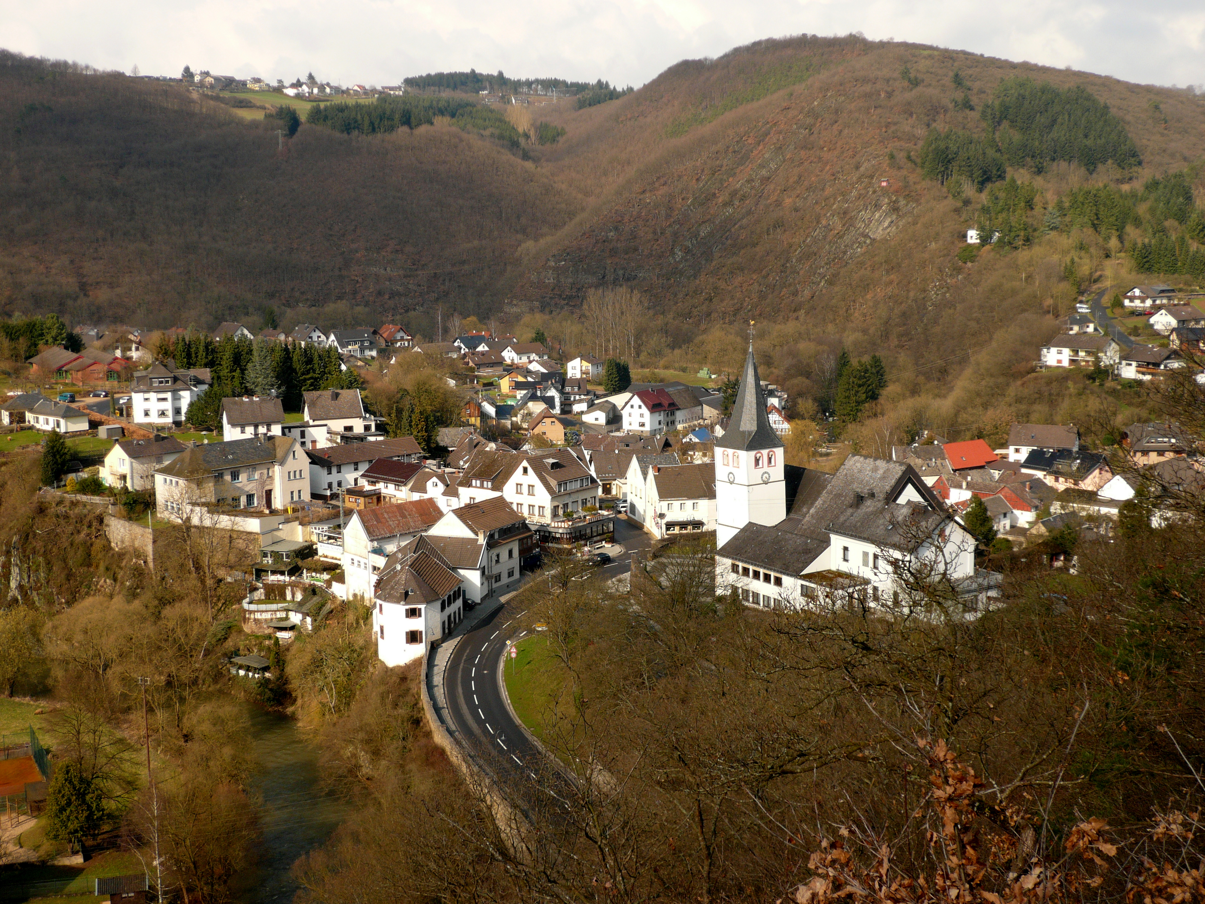 Village Schuld, Eifel